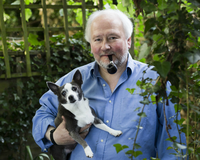 Photo of Andrew Linzey and his dog